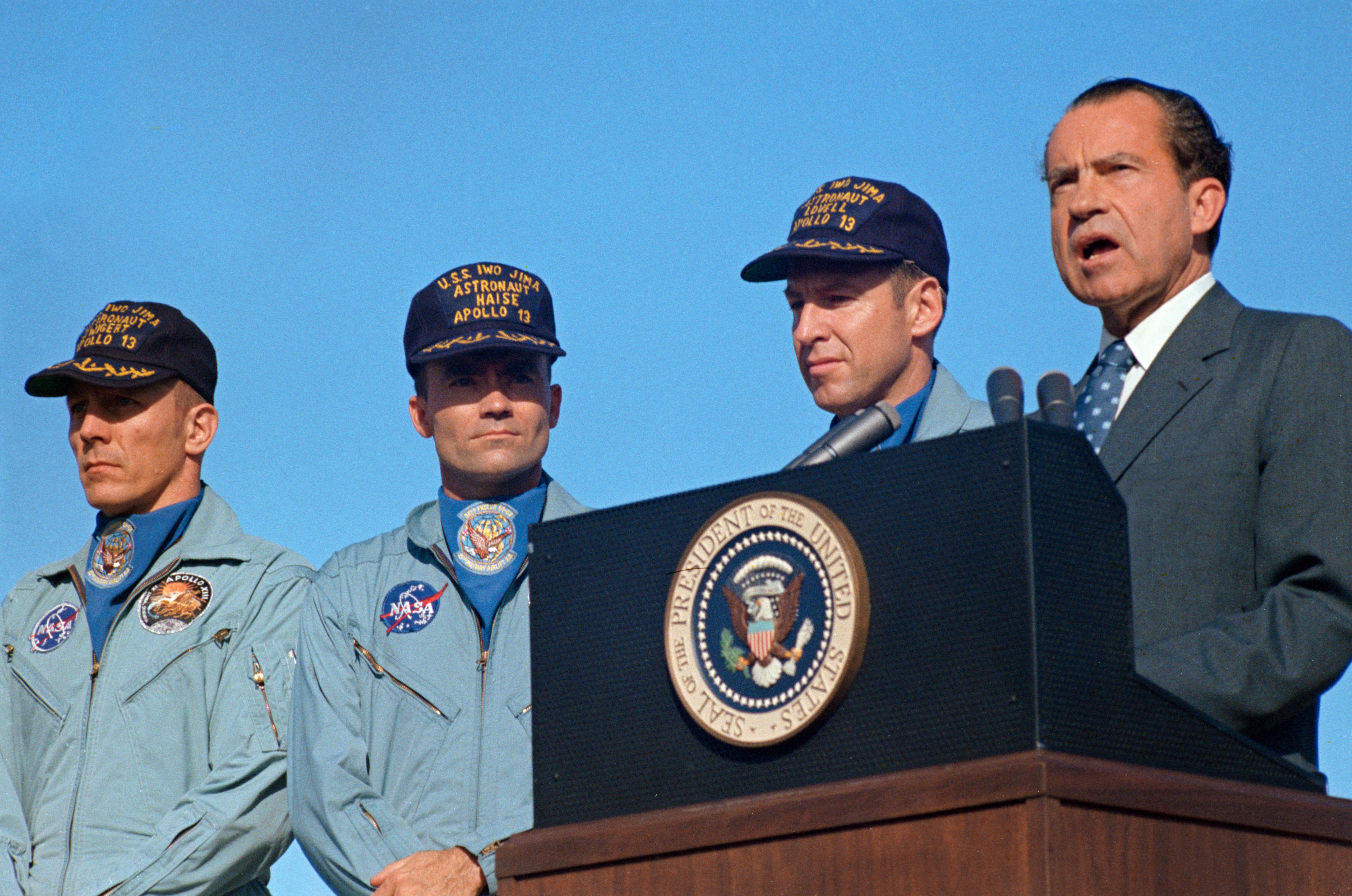 President Richard M. Nixon speaks at Hickham Air Force Base prior to presenting the nation's highest civilian award to the Apollo 13 crew. Receiving the Presidential Medal of Freedom were astronauts James A. Lovell Jr., (next to the Chief Executive), commander; John L. Swigert Jr. (left), command module pilot; and Fred W. Haise Jr., lunar module pilot. Wives of Lovell and Haise and the parents of Swigert accompanied the President to Hawaii. The Apollo 13 splashdown occurred at 12:07:44 p.m. (CST), April 17, 1970, about a day and a half prior to the Hickam Air Force Base ceremonies.